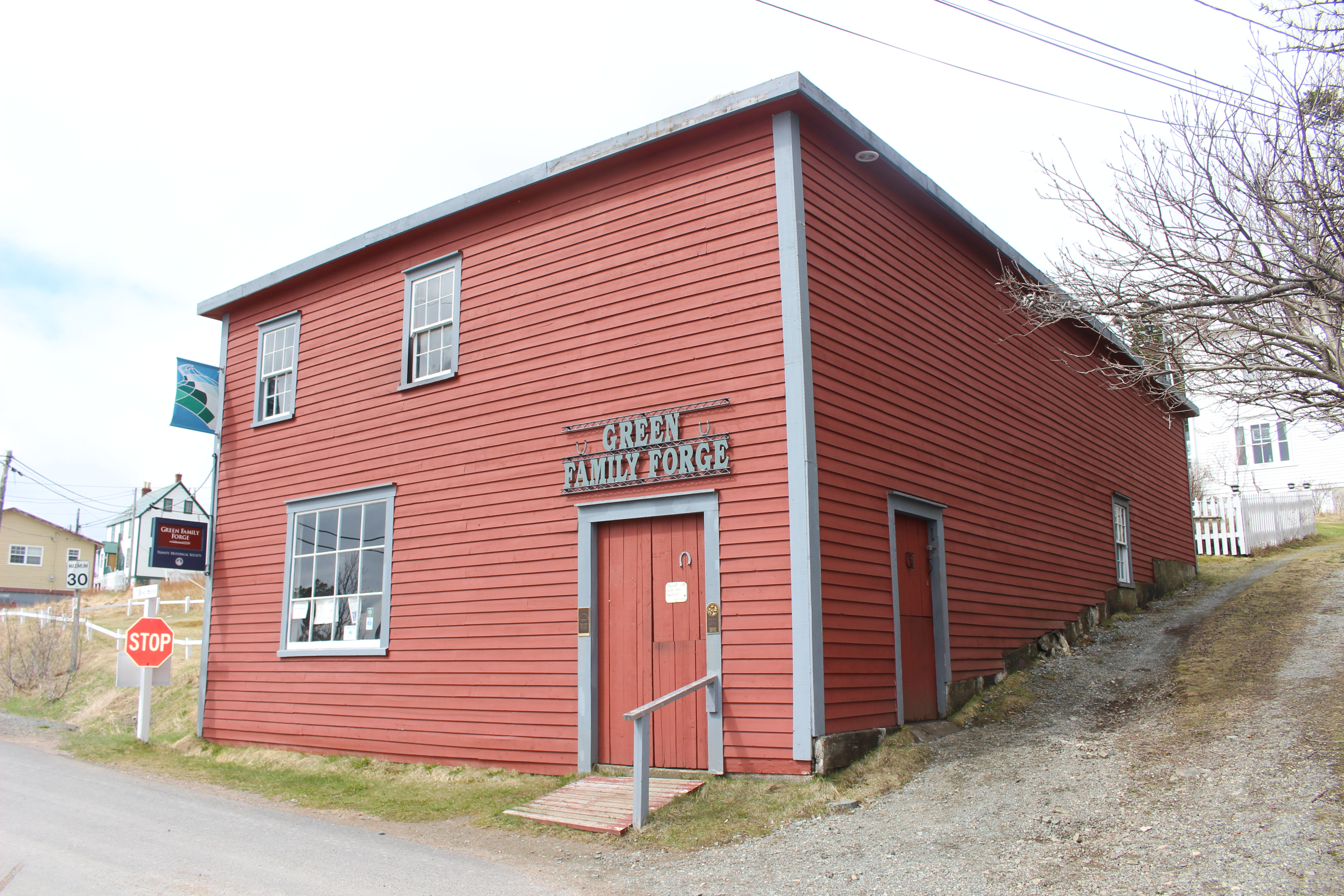 Photo of the exterior of the Green Family Forge, a traditional blacksmith shop, located in Trinity, Trinity Bay, Newfoundland and Labrador. Photo by Dale Gilbert Jarvis/Heritage NL (15 May 2019).